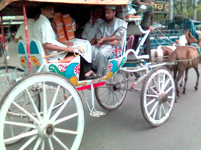 A traditional horse-drawn carriage of old Dhaka. Also popularly known as "tomtom" (bn: টমটম ) in Bengali. It is a four wheeled vehicle pulled by horses.